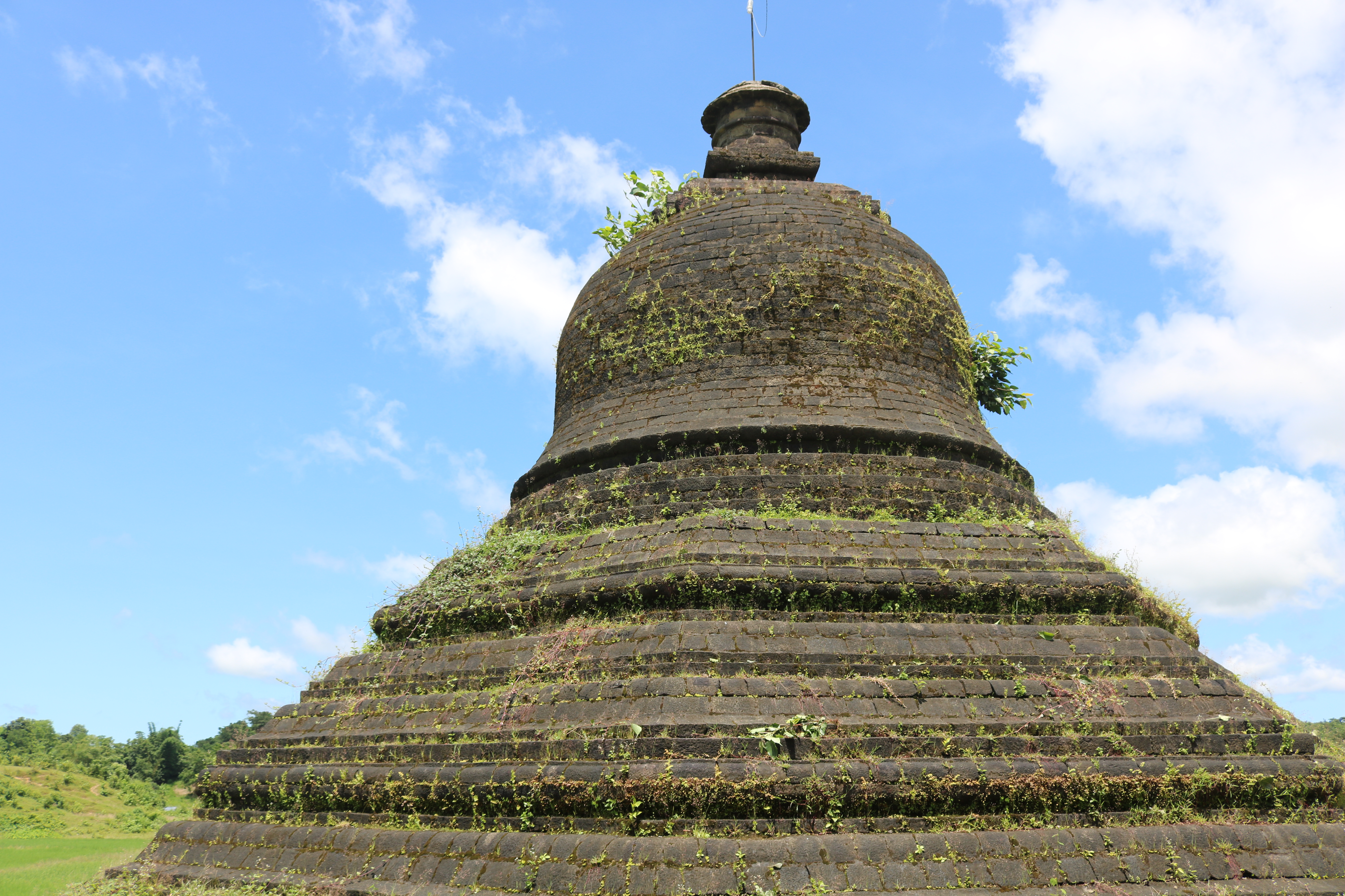 Nyi Taw Temple was built by Min Kha Ri (2nd King of Mrauk U kingdom) in late period of 15th century AD. မြန်မာဘာသာ: မြောက်ဦးမင်းဆက်၏ ဒုတိယမြောက်ဘုရင်ဖြစ်သည့် မင်းခရီ တည်ထားခဲ့သည့် ညီတော်ပုထိုးတော်